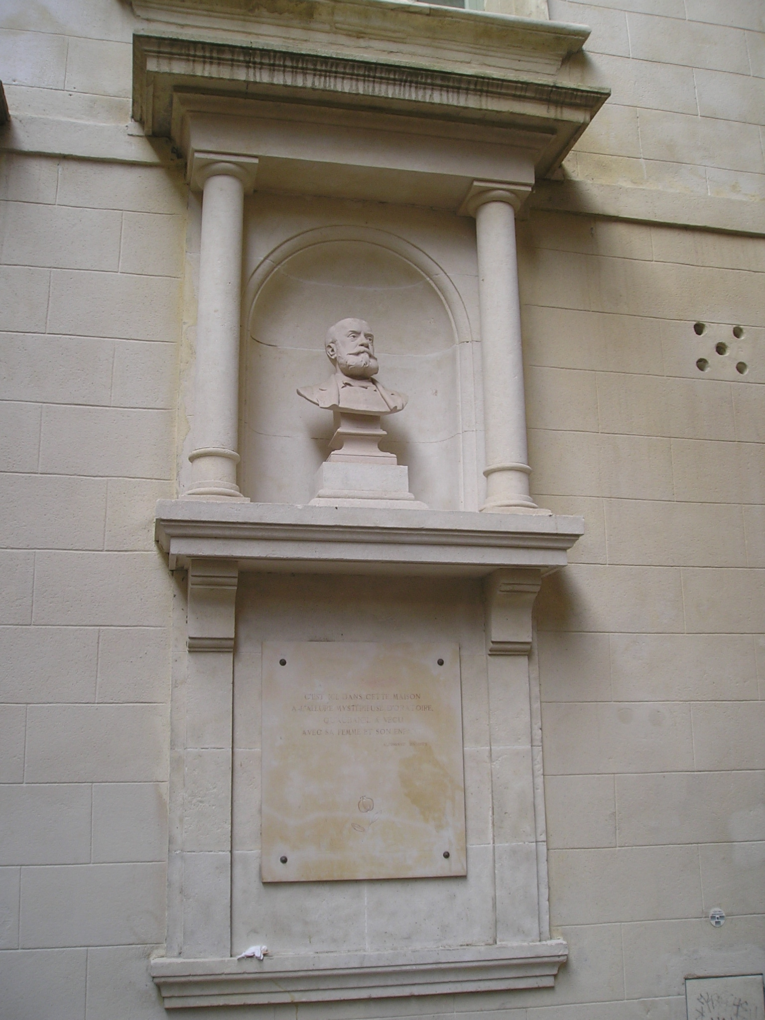 Statue of theodore aubanel in front of maison aubanel avignon